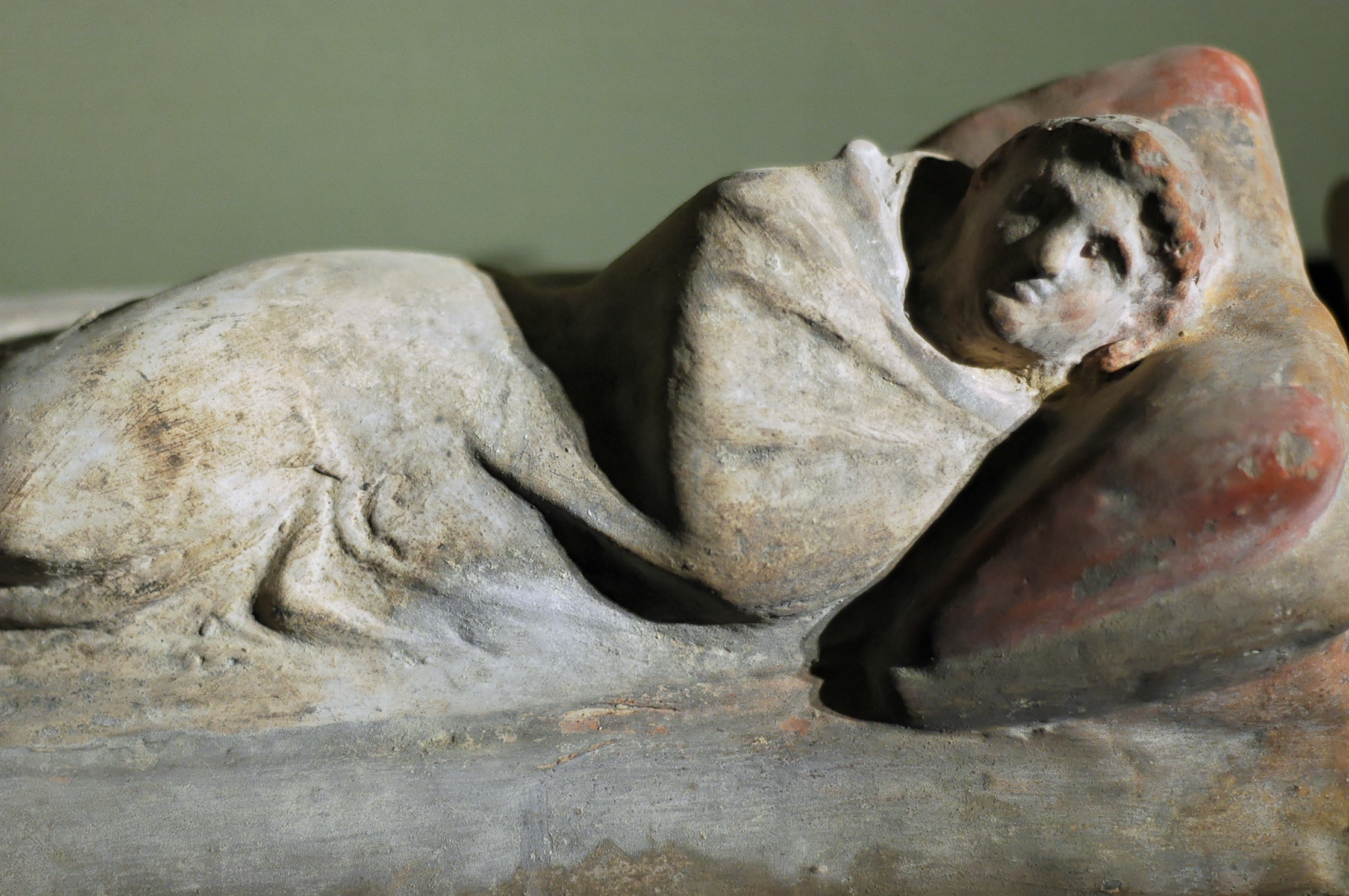 Etruscan sarcophagus, detail of the lid. Museum Santa Maria della Scala, Siena.